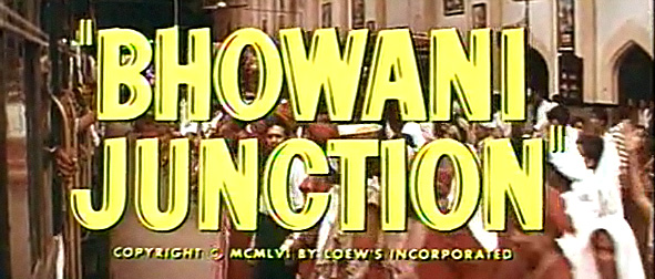 Cropped screenshot from the trailer for the film Bhowani Junction.